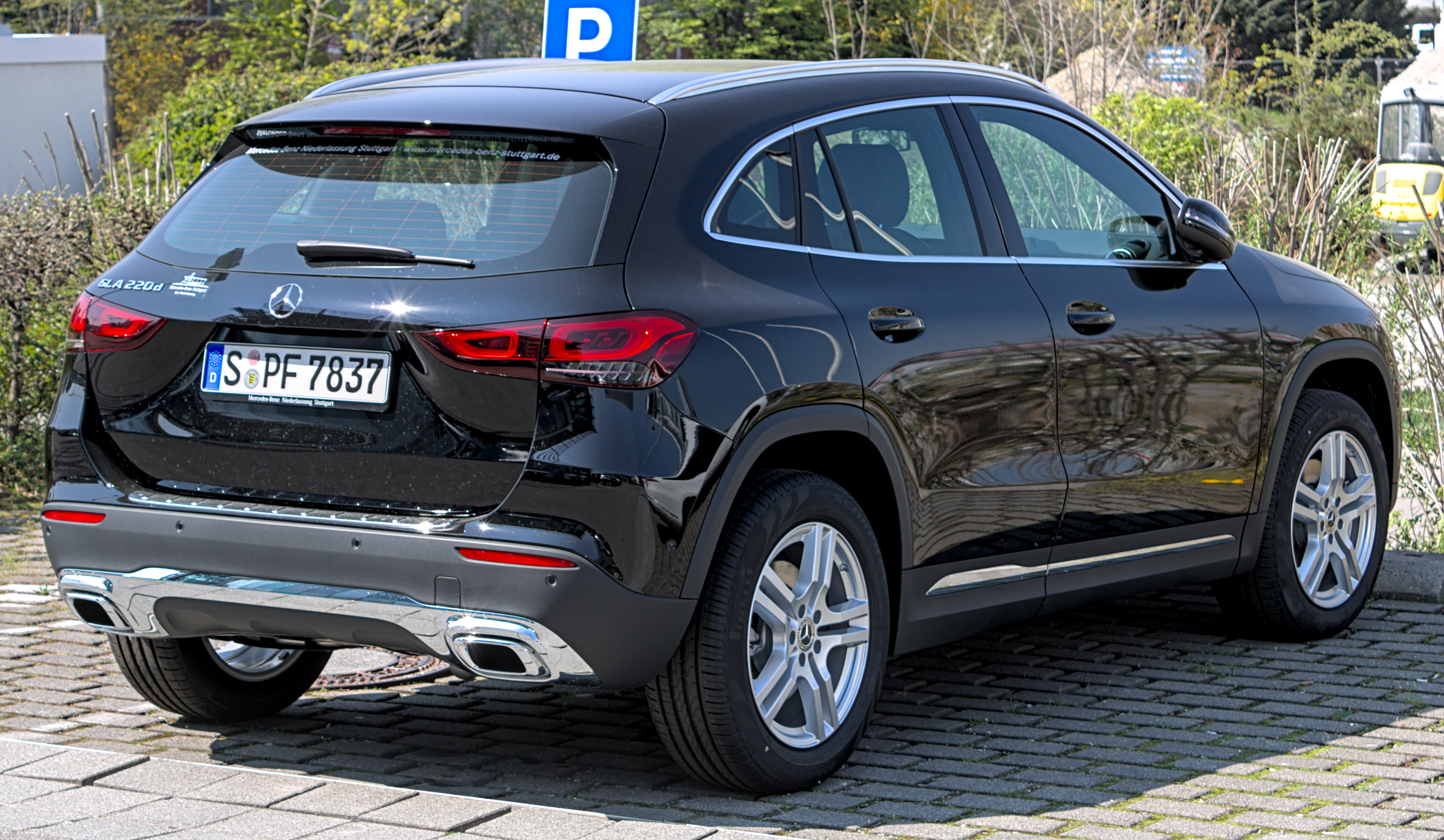 Mercedes-Benz_H247 in Stuttgart